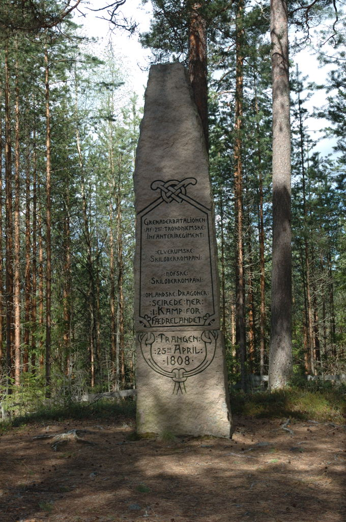 Memorial of the battle of Trangen i Norwy, between Sewdish and Norwegian armed forces 1807. Minnestein over kampene ved Trangen i 1807